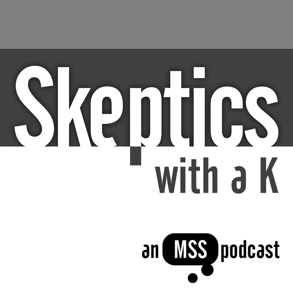 Logo of the Skeptics with a K podcast.